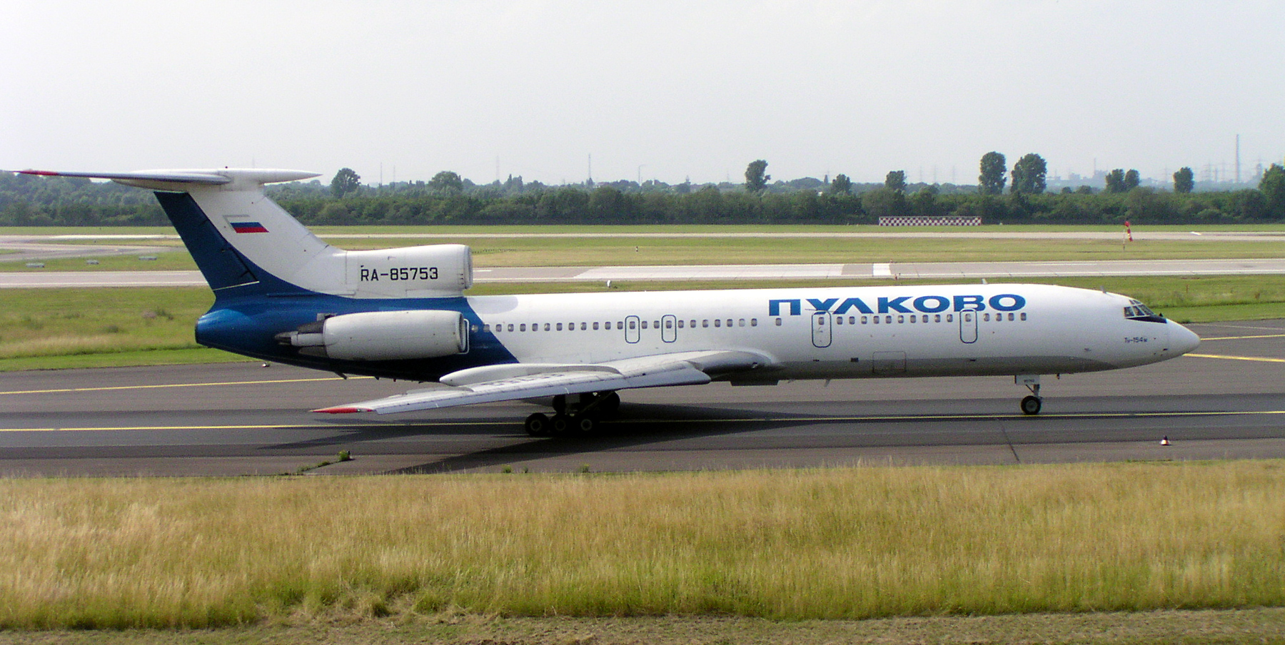 Description: Pulkovo Tupolev Tu-154M (RA-85753) in Düsseldorf, 03. July 2005 Photographer: Arcturus Licence: GFDL + cc-by-sa-2.0-de